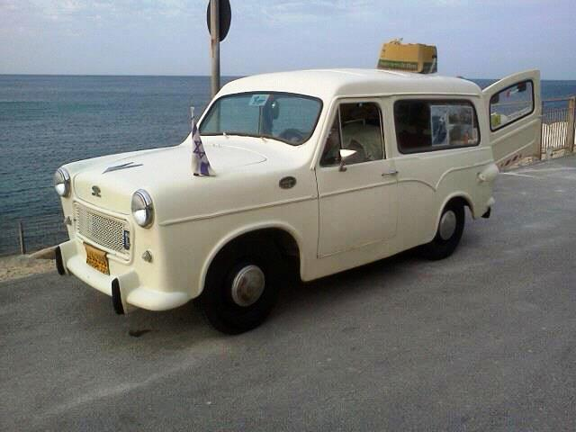 SUSITA CAR MODEL 1963